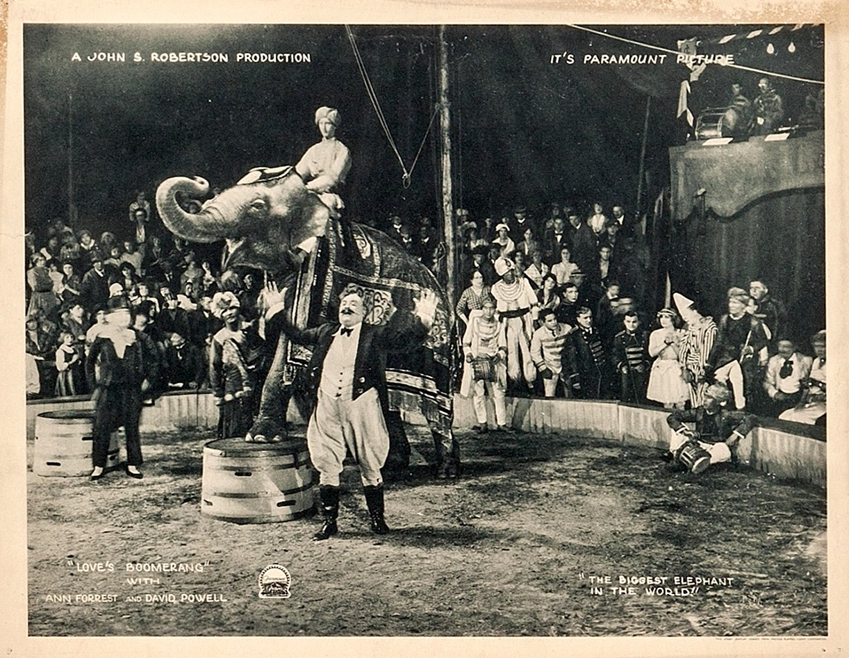 Lobby card for the American release of Love's Boomerang